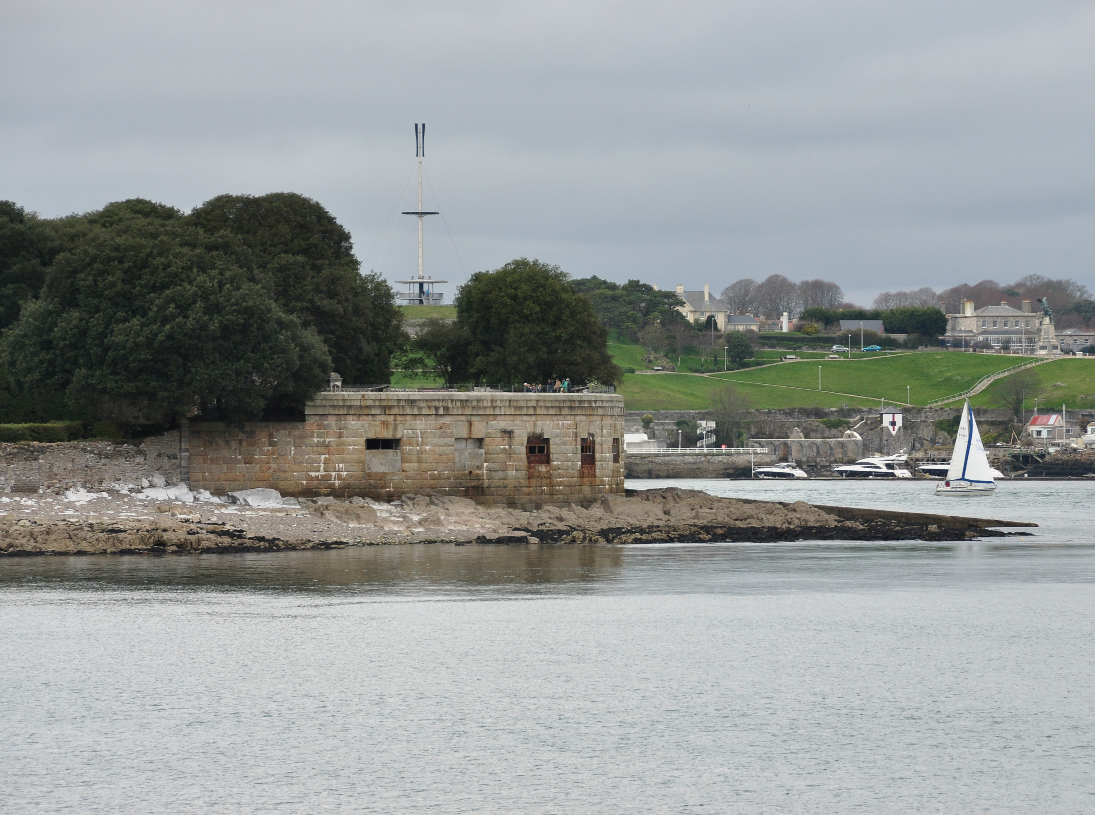 The Garden Battery in Mount Edgcumbe Country Park, Cornwall, at the entrance to the Hamoaze.